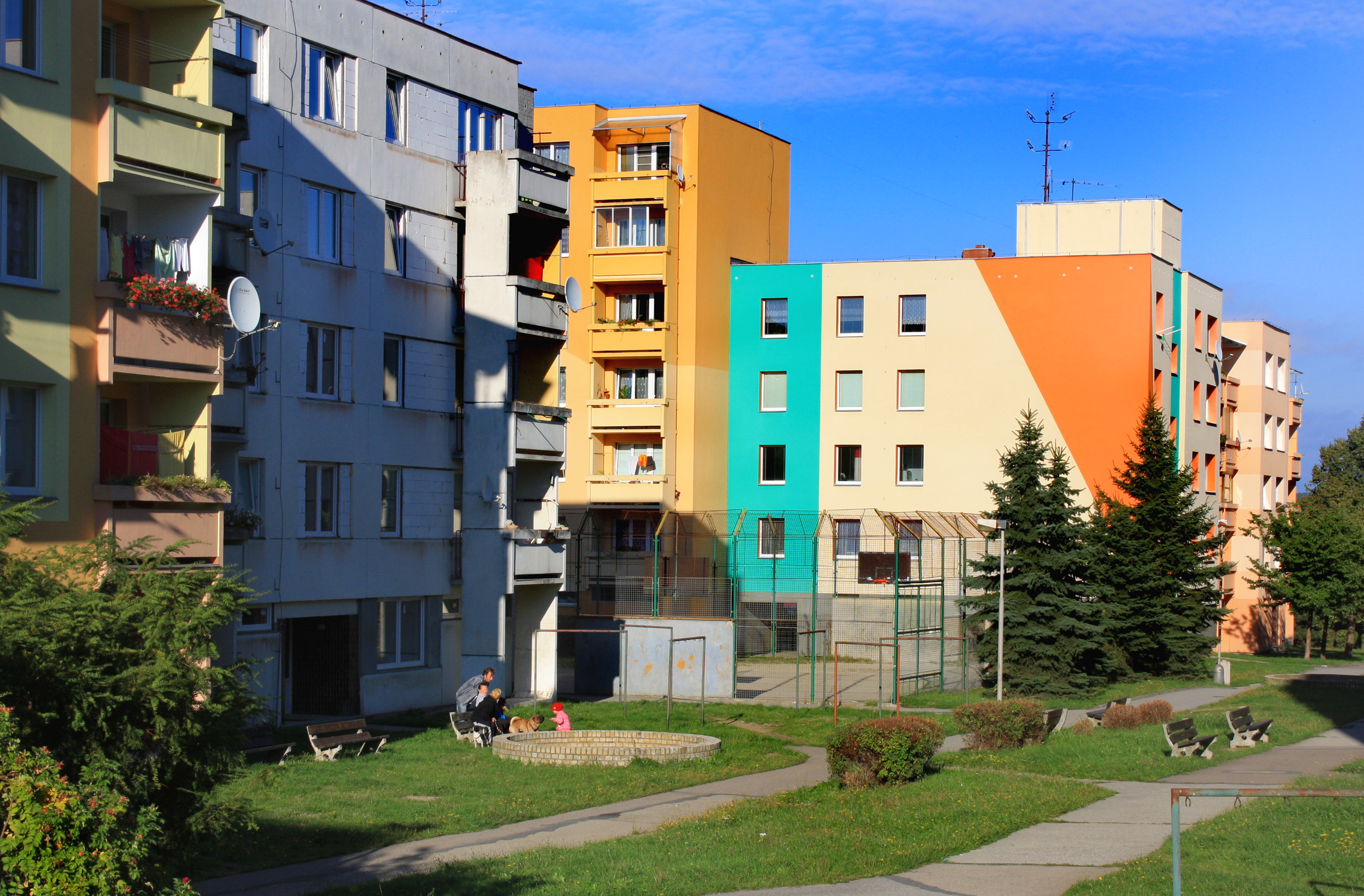 Kosmonautů street in Jindřichův Hradec, Czech Republic